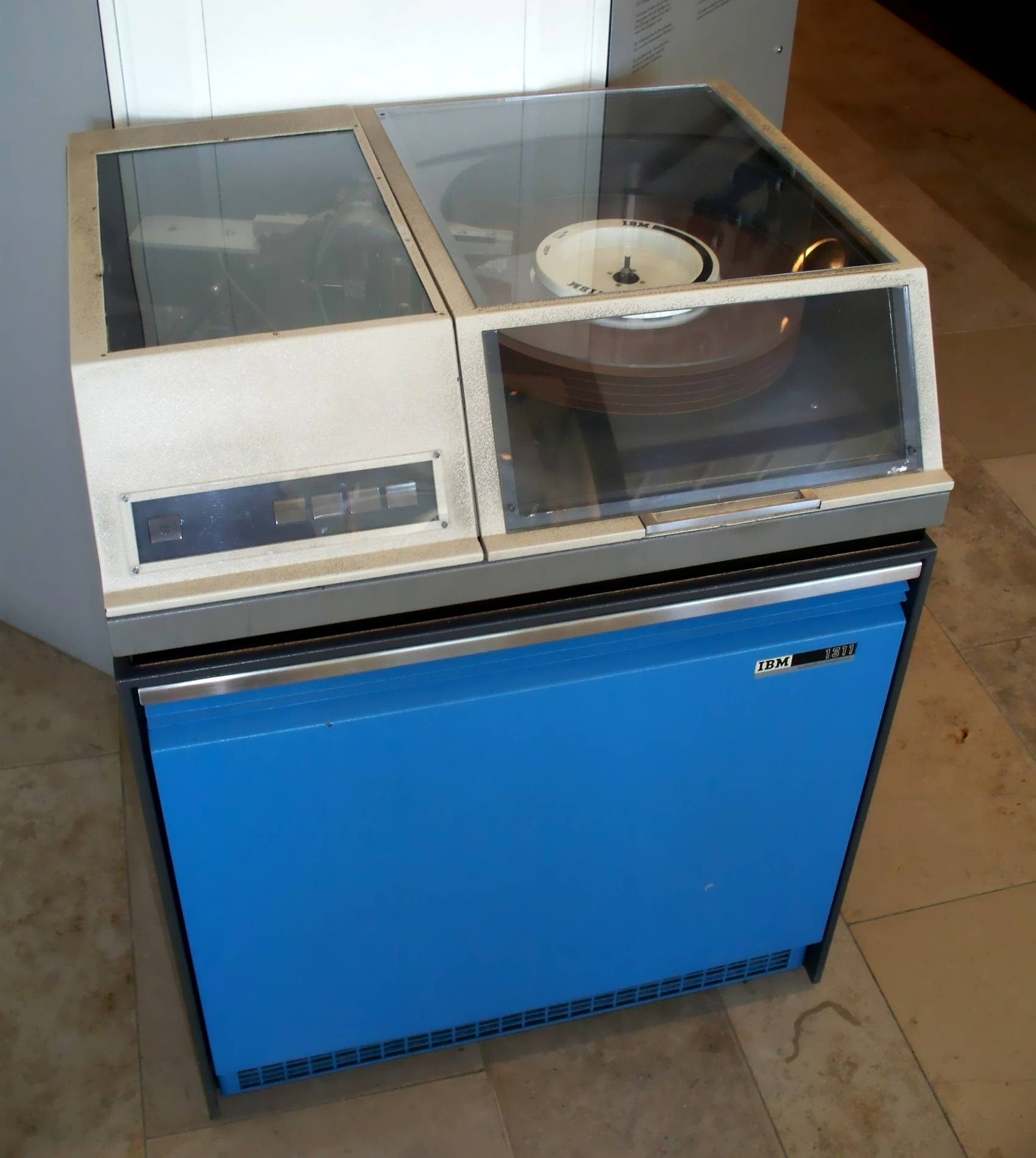 A IBM 1311 Disk Storage Drive in the Deutsches Museum.